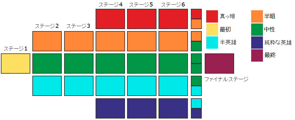 Based on in Japanese